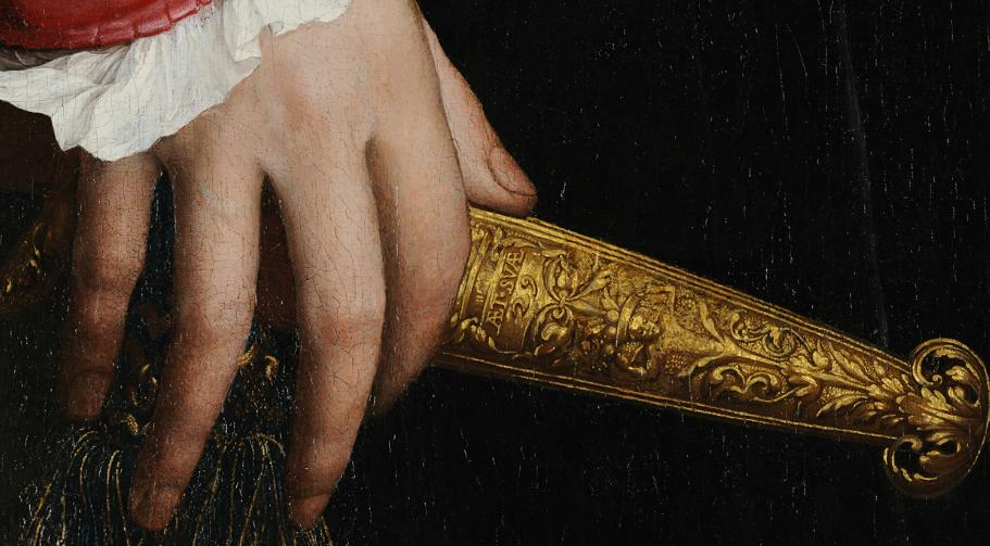 Holbein Ambassadeurs detail age Dinteville